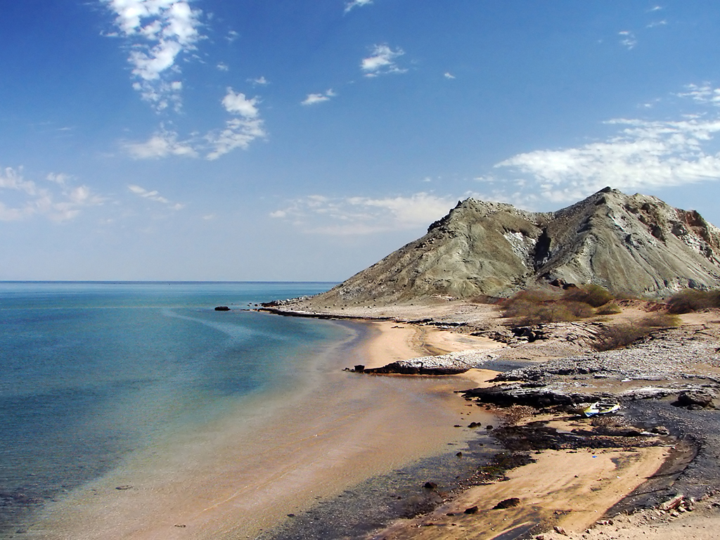 Khezr Beach, on the Persian Gulf's Hormuz Island.